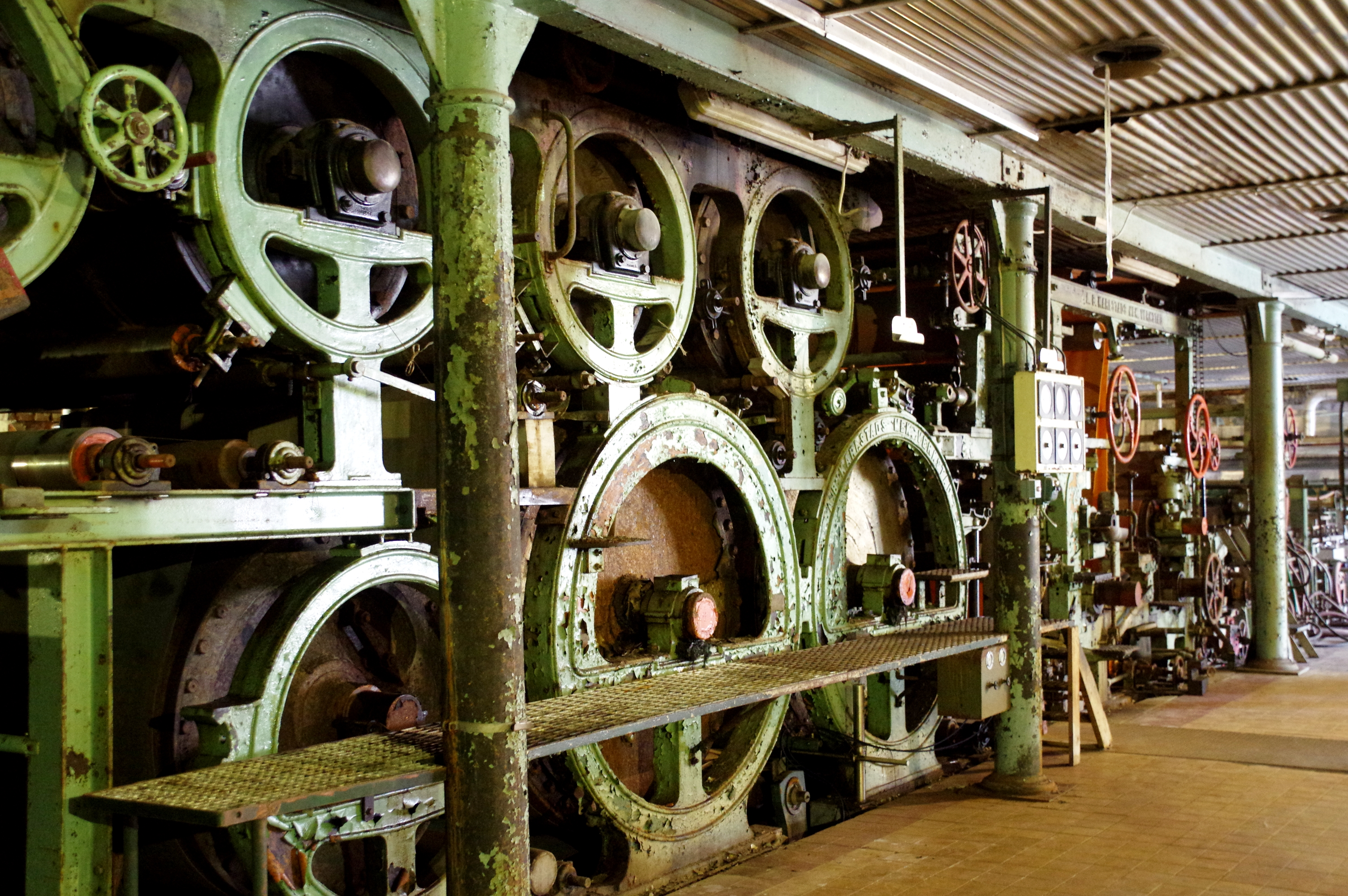 The papermill in Fengersfors, Åmål municipality is closed, but PM1 and other equipment is left on the premiseses